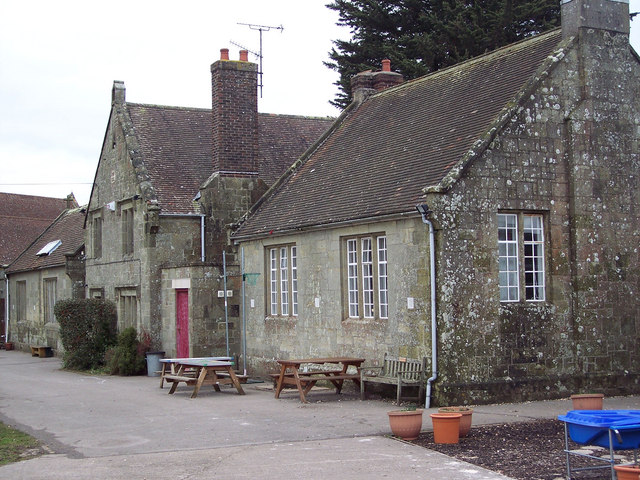 Semley Village School